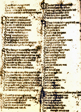 Tenso of Raimon Guillem and Ferrarino da Ferrara, from troubadour manuscript "P", north Italian, 1310, now in the Biblioteca Laurenziana, Florence, as XLI.42.